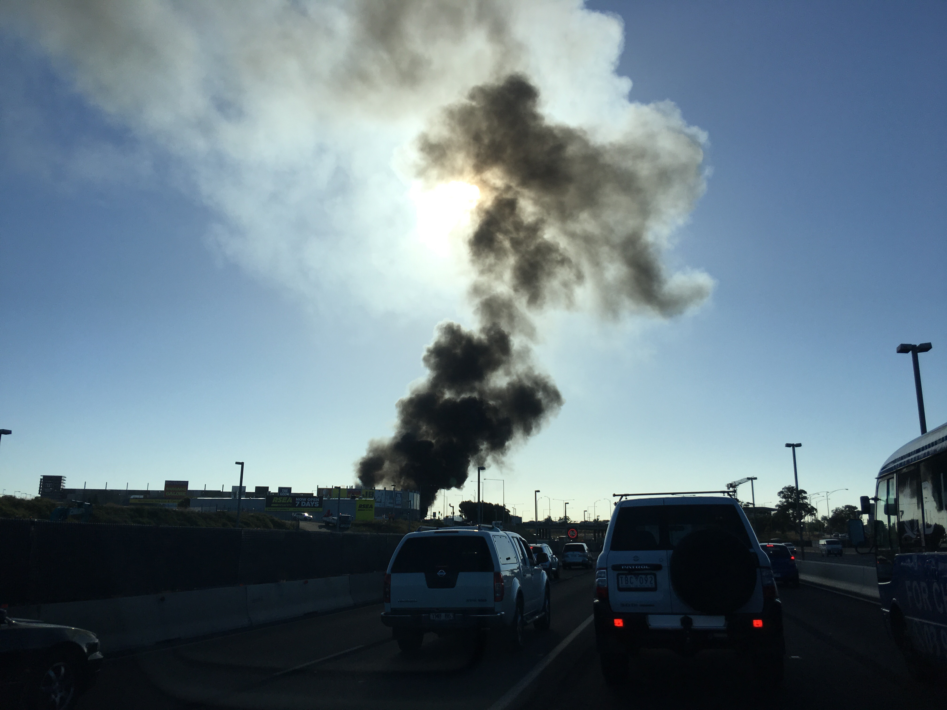 A dark plume of smoke erupts from the shopping mall into which the ill-fated aircraft plunged shortly after take-off.